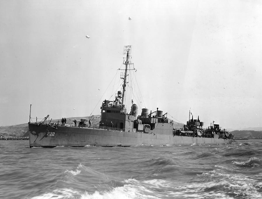 The U.S. Navy destroyer USS Bulmer (DD-222) underway off the Mare Island Navy Yard, California (USA), on 28 August 1943. Note the barrage balloons in the distance.